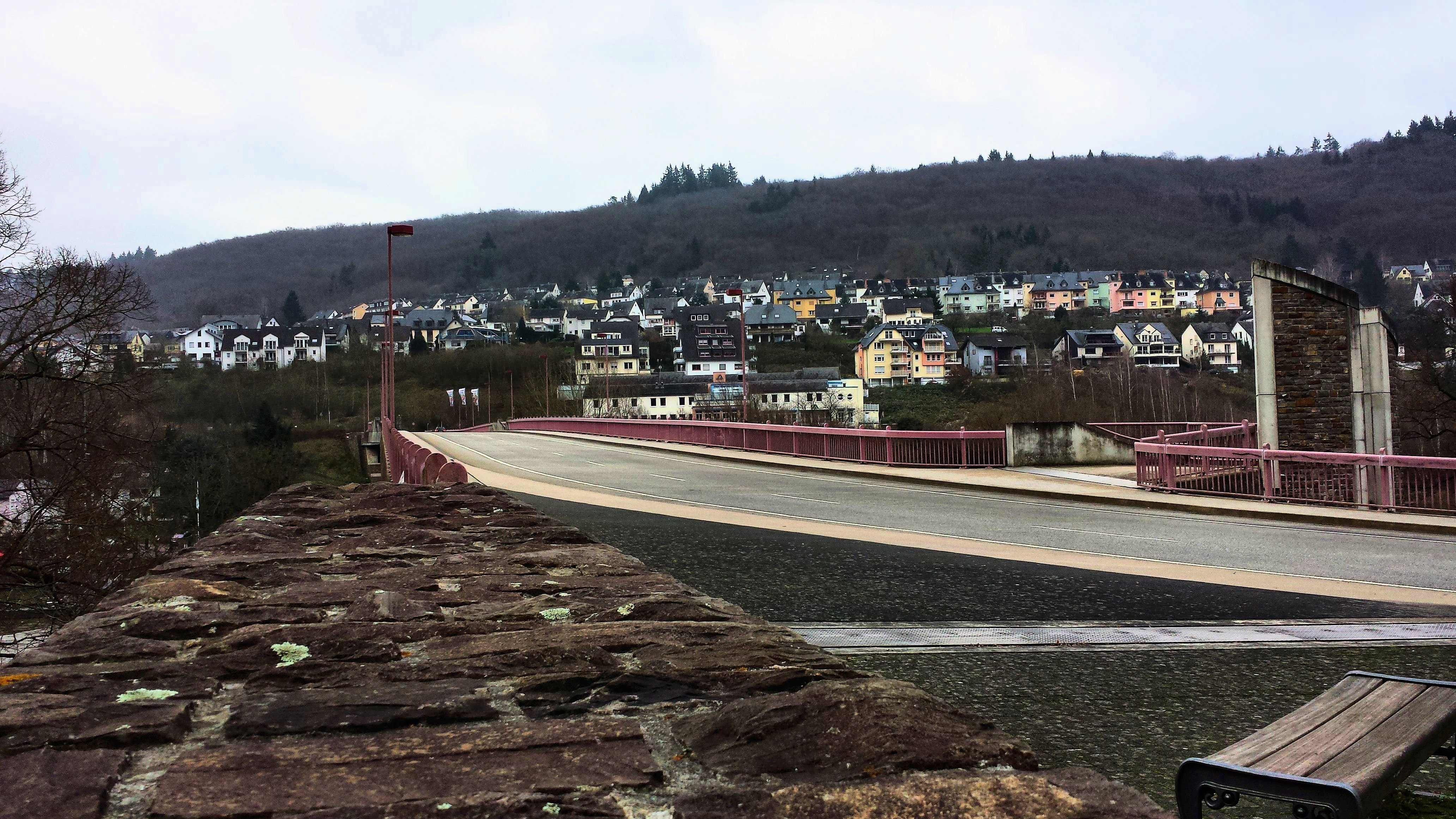 Cochem Northbridge